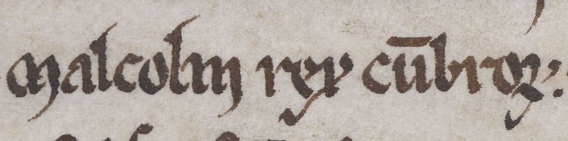 The name of Máel Coluim mac Domnaill, King of Strathclyde (died 997) as it appears on folio 5v of British Library Cotton MS Domitian A VIII (De primo Saxonum adventu). The excerpt reads: "Malcolm rex Cumbrorum".